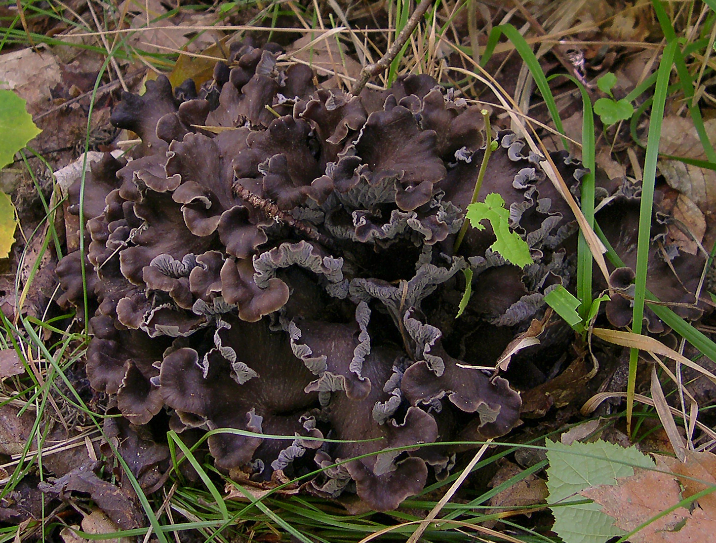 Group of Cantharellus cinereus. Image taken on Piacenza's mountains